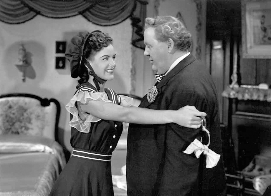 Publicity still of Ella Raines and Charles Laughton in the 1944 film, The Suspect